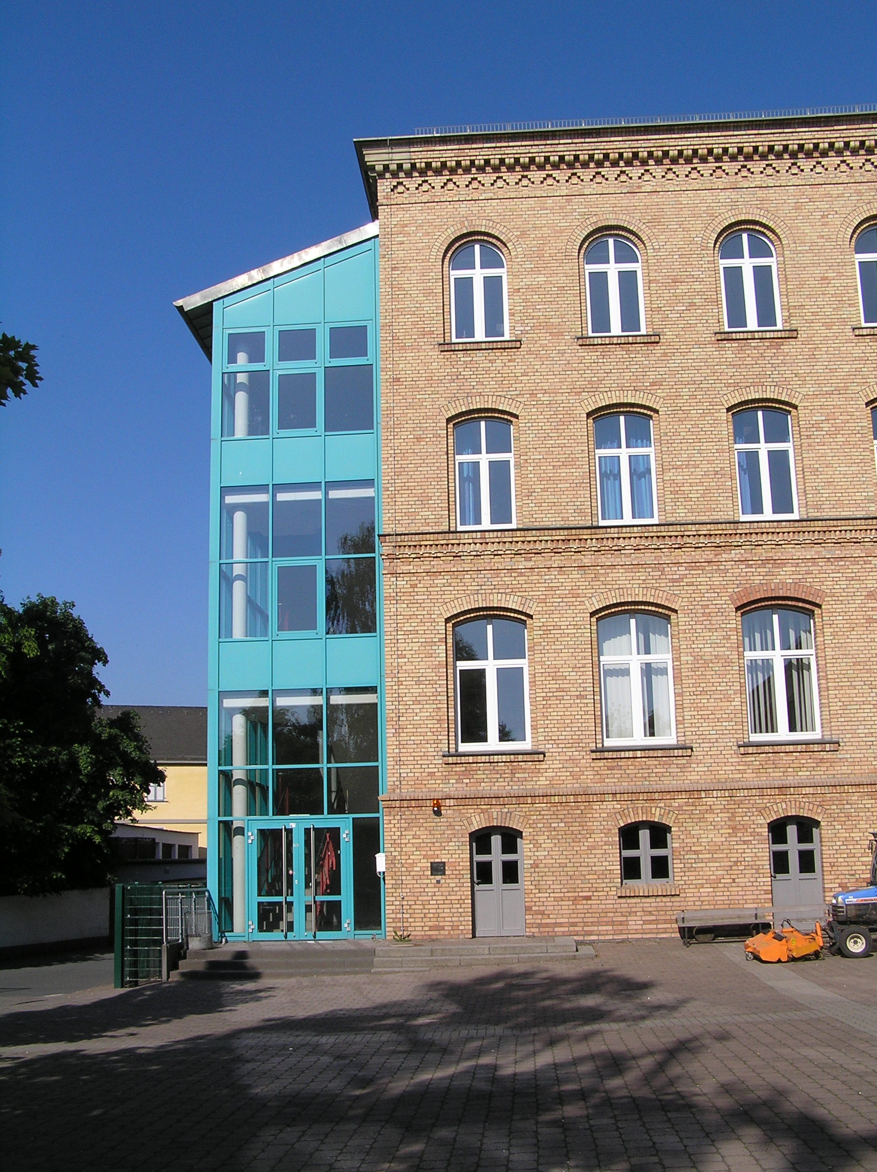 Usingen Castle, today Christian Wirth School in Usingen, Hesse, Germany